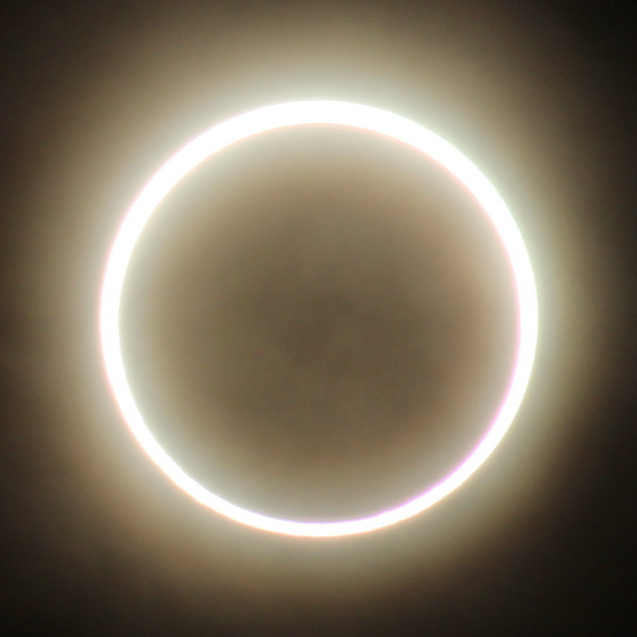 Annular phase of solar eclipse May 10 2013, viewed from Churchills Head north of Tennant Creek, Northern Territory, Australia